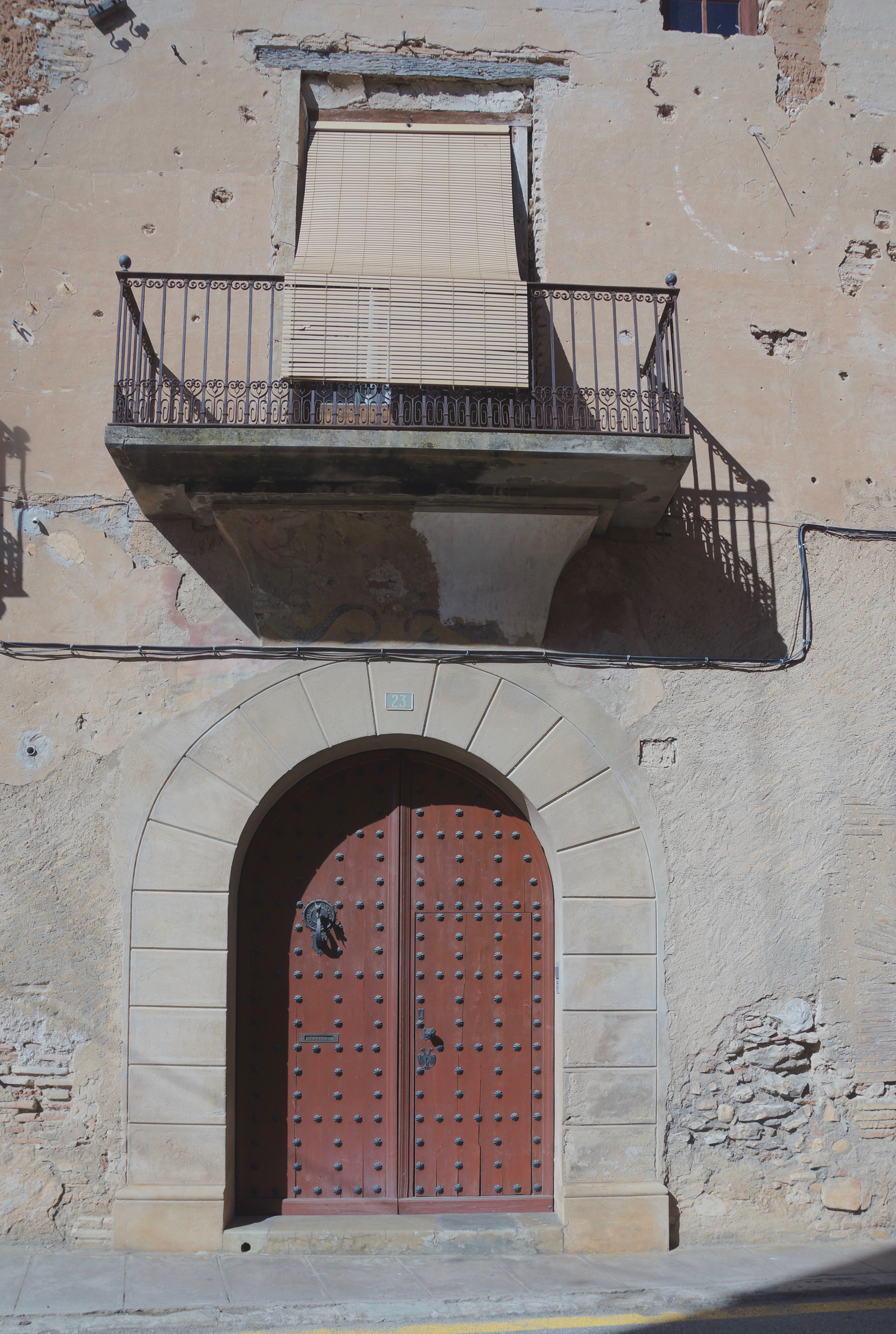 Ginestar, Catalonia: Main door and balcony from Ca Tramontà